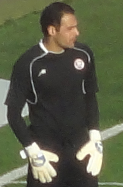 Mohammad Mohammadi, Damash vs Fajr